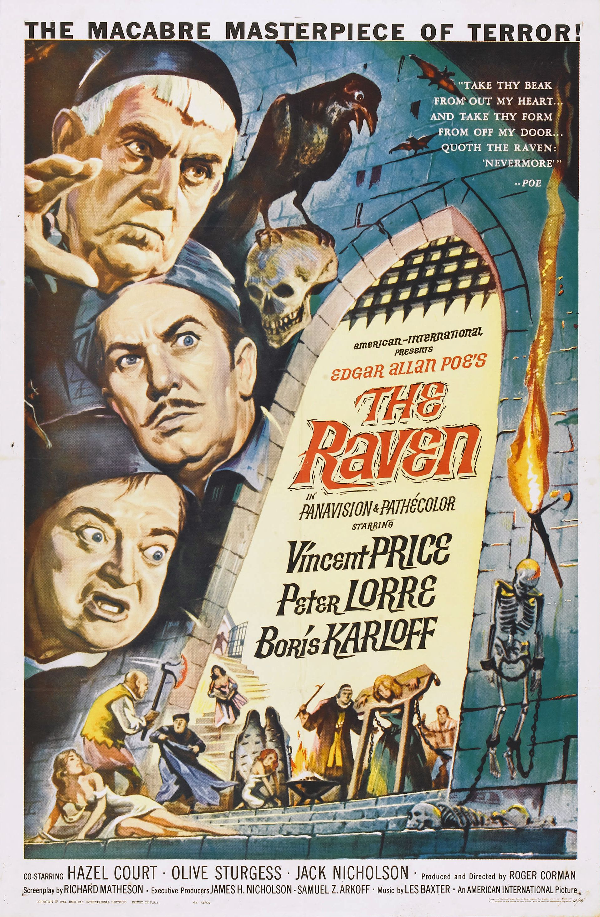 Advertising poster for the film The Raven (1963), directed and produced by Roger Corman.